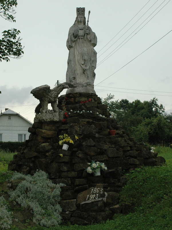 Monument in memory of the January Uprising and of Our Lady, Queen of Poland.